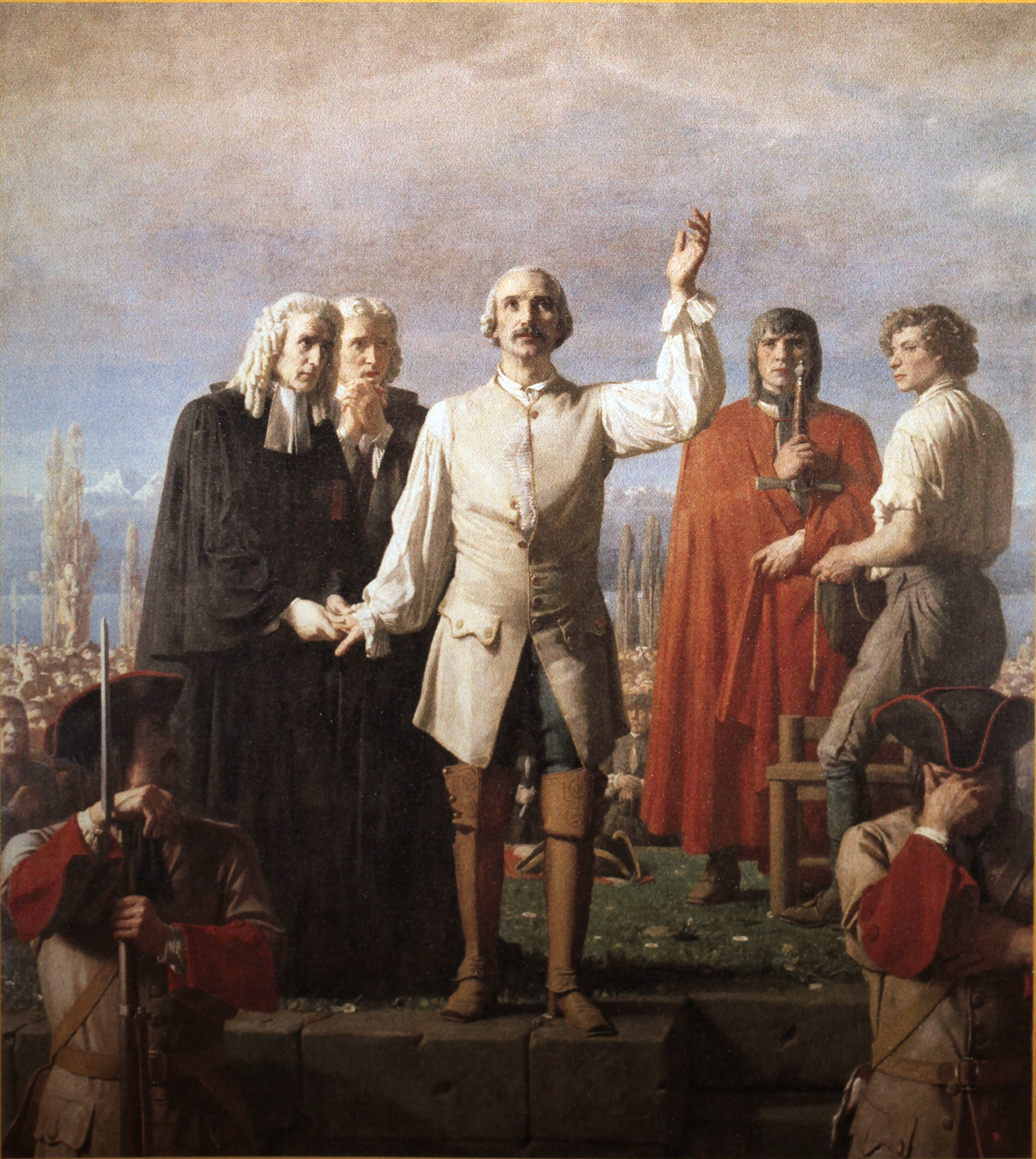 Execution of major Abraham DavelAbraham Davel. Reproduction of a painting by Charles Gleyre. On display at Morges military museum.